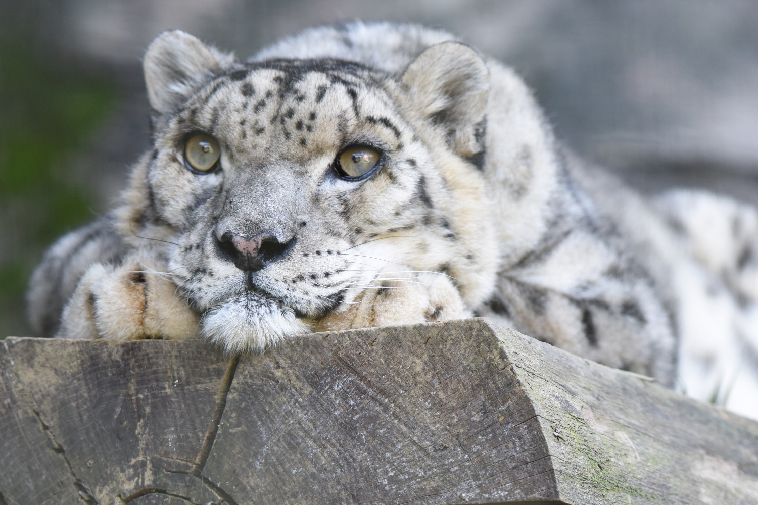 Shynghyz, the oldest known snow leopard of the world, at Tama Zoo, Tokyo. He passed away 2015-10-10 at the age of almost 26 years.